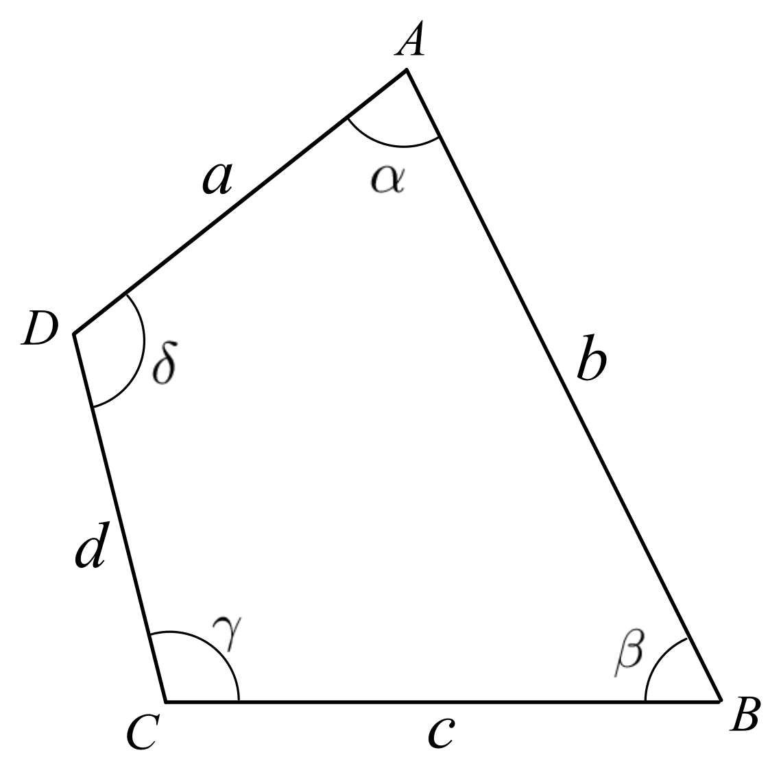 A Quadrilateral